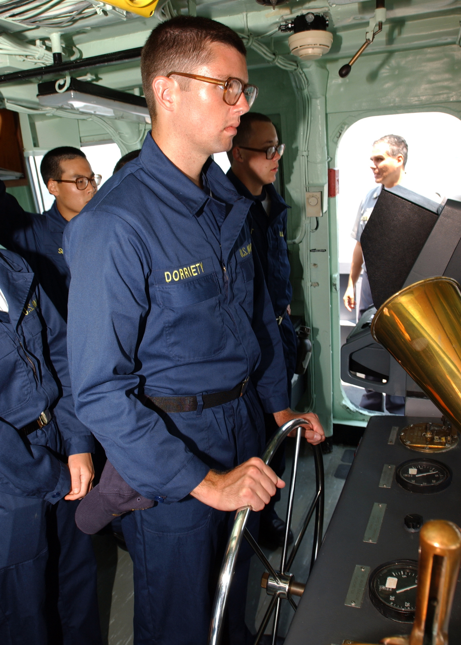 ANNAPOLIS, Md. (July 28, 2009) A Plebe takes the helm of Yard Patrol (YP) Craft 696 in the Chesapeake Bay. The Plebes train on the YPs to learn basic seamanship and damage control techniques during Plebe Summer training. Plebe Summer is a six-week orientation to academy life and military basics. (U.S. Navy photo by Mass Communication Specialist Seaman Patrick Green/Released)